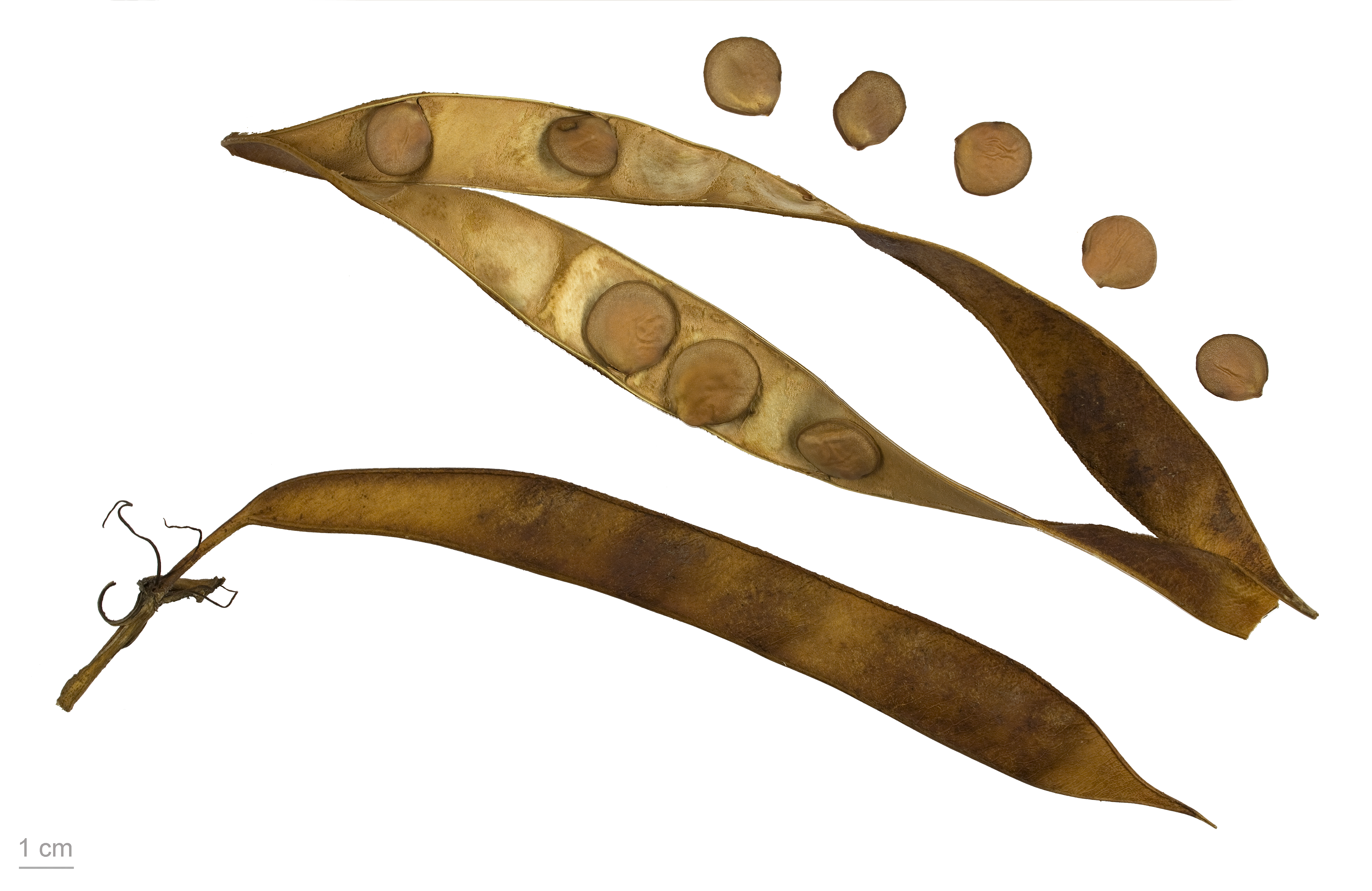 Orchid tree, fruits and seeds